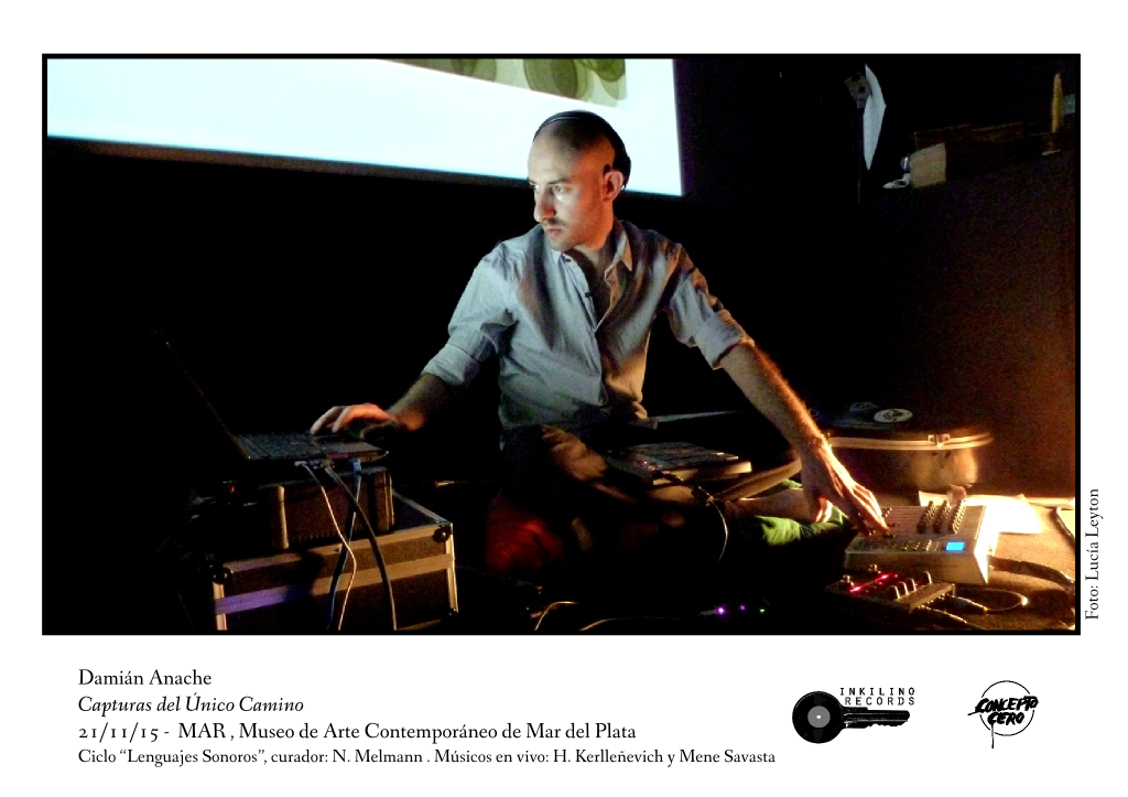 Damián Anache live performing Capturas del Unico Camino, on MAR (Museo de Arte Contemporáneo de Mar Del Plata), 11/21/15